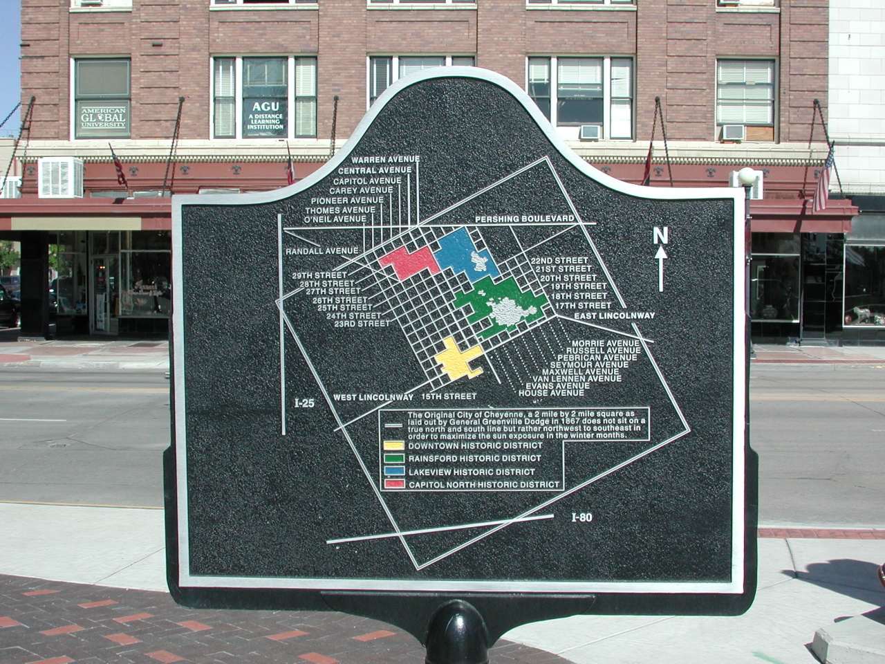 Downtown Cheyenne map